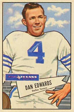 American football player Dan Edwards on a 1952 Bowman Large card.